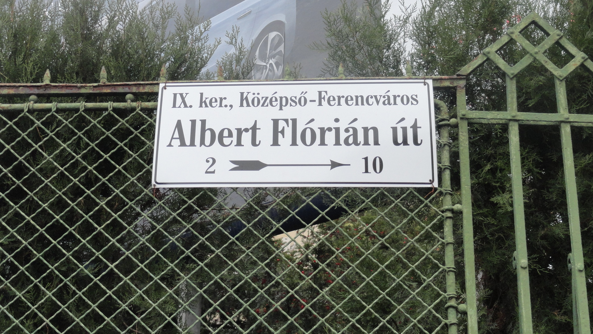 Albert Flórián street, Budapest